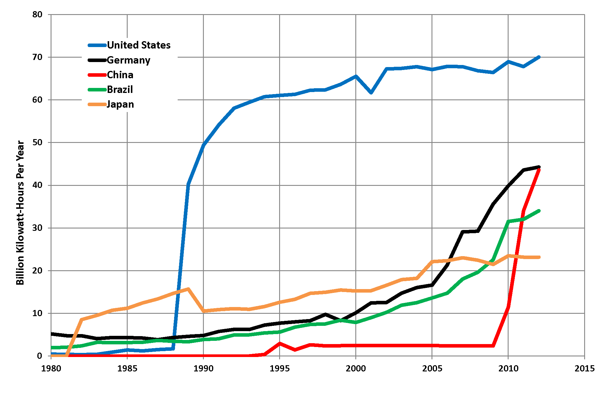 Trends in the top five countries generating electricity from biomass